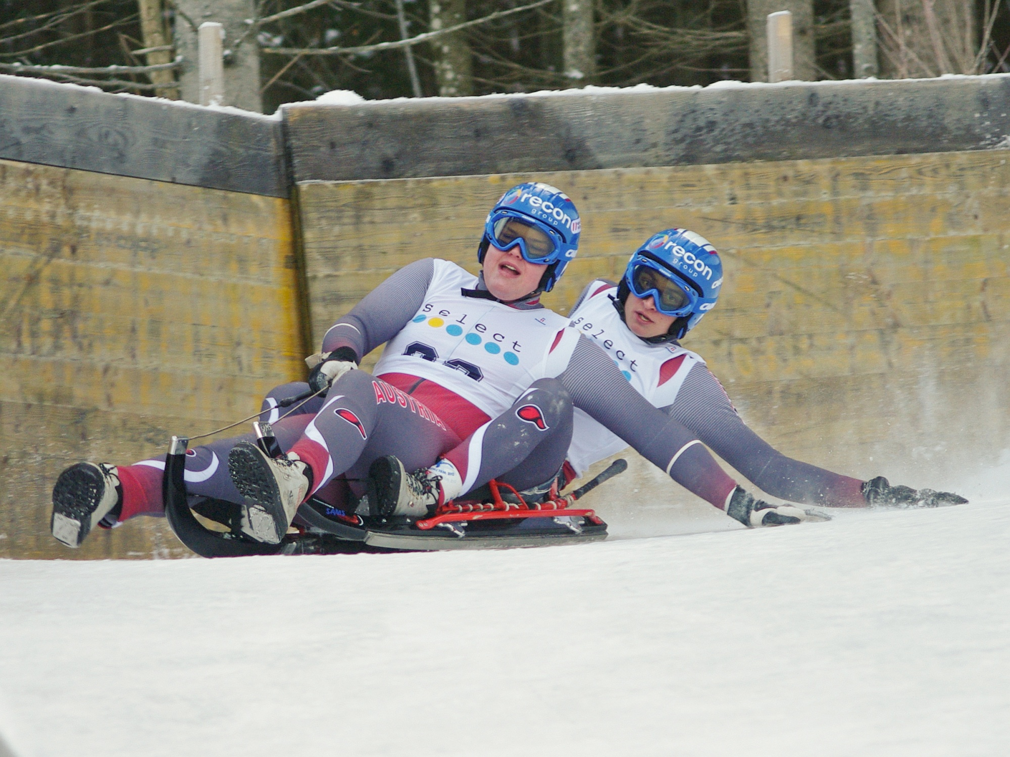 Austrian natural track lugers Rupert Brüggler and Tobias Angerer at the Austrian Luge Natural Track Championships 2010 in St. Sebastian.